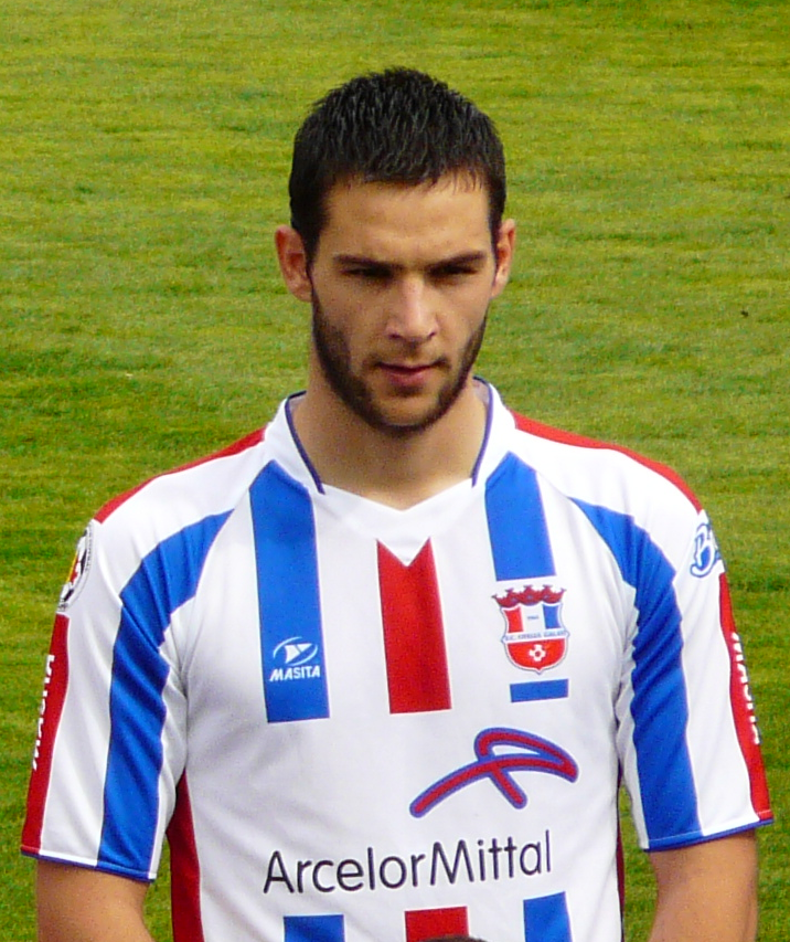 Bratislav Punoševac in April 2011, during Otelul - Gaz Metan